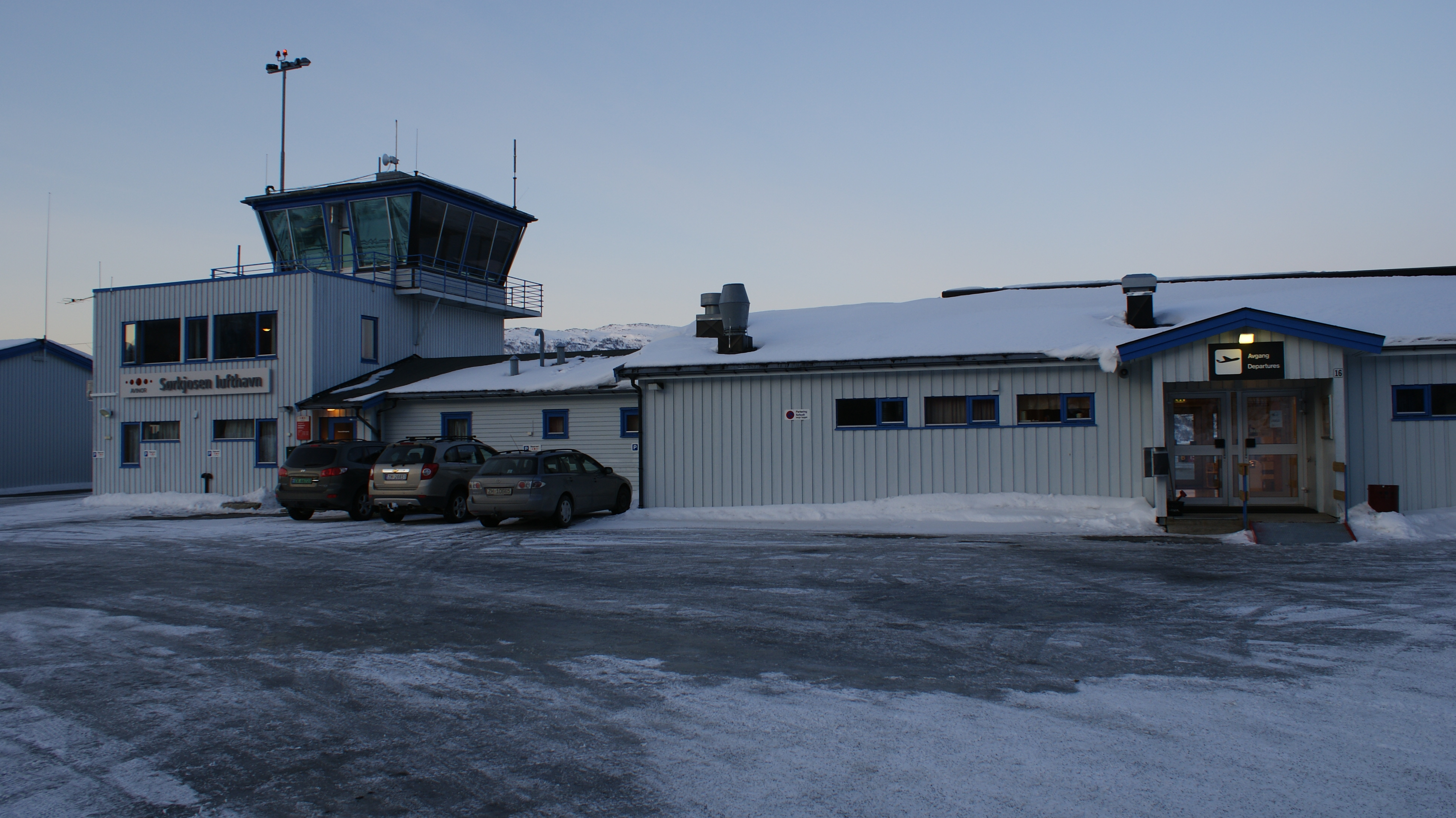 Sørkjosen Airport, Nordreisa, Troms, Norway. Terminal building + ATC tower.